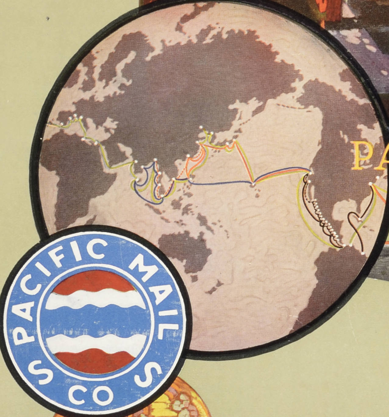 Pacific Mail: Pacific Mail Steamship Company: under American flag [American flag] An American steamship company. Geographic Subject (Continent): Asia; North America Filename: rbm-coll3020-02-01.TIF Access Conditions: Send requests to address given. Or contact us via Phone (213) 740-1772. Coverage date: 1867/1925 Part of collection: Rare Books and Manuscripts Collection Type: images Part of subcollection: Fine Arts Publisher (of the Digital Version): University of Southern California. Libraries Format (imt): image/tiff Geographic Subject (State): California Archival file: rbm_Volume134/rbm-coll3020-02-01.TIF Date issued: 1921 Identifying Number: Asian poster collection (coll. 3020). Japanese poster collection. Steamship travel posters, no. 5, item 2 Publisher (of the Original Version): Pacific Mail Steamship Company Repository Name: USC Libraries. East Asian Library Subject (naf Corporate Name): Pacific Mail Steamship Company Language: English Repository Address: Doheny Memorial Library, Los Angeles, CA 90089-1825 Geographic Subject (City or Populated Place): San Francisco Contributing entity: University of Southern California Format (aat): posters; calendars Series: USC Japanese poster collection: Steamship travel posters Place of Publication (of the Origianal Version): San Francisco, Calif. References: [Website about the steampship company] Pacific Mail Steam Ship Company Subject (lcsh): Steamboat lines Repository Email: Geographic Subject (Country): USA